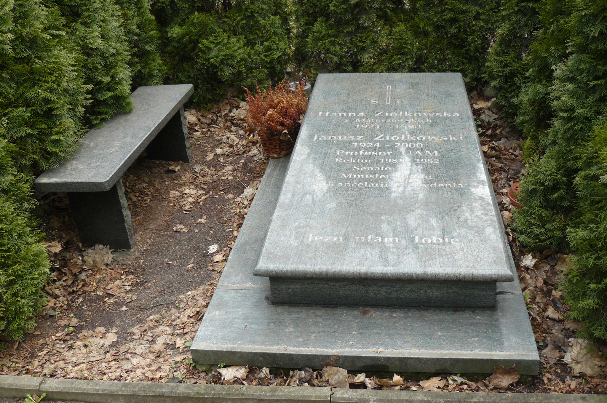 Janusz Ziolkowski Tomb, Poznan.